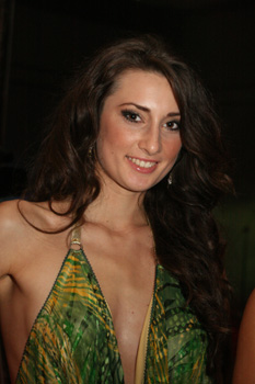 Miss Romania 2007 - Elena Roxana Azoitei in Miss World 2007, Sanya, China